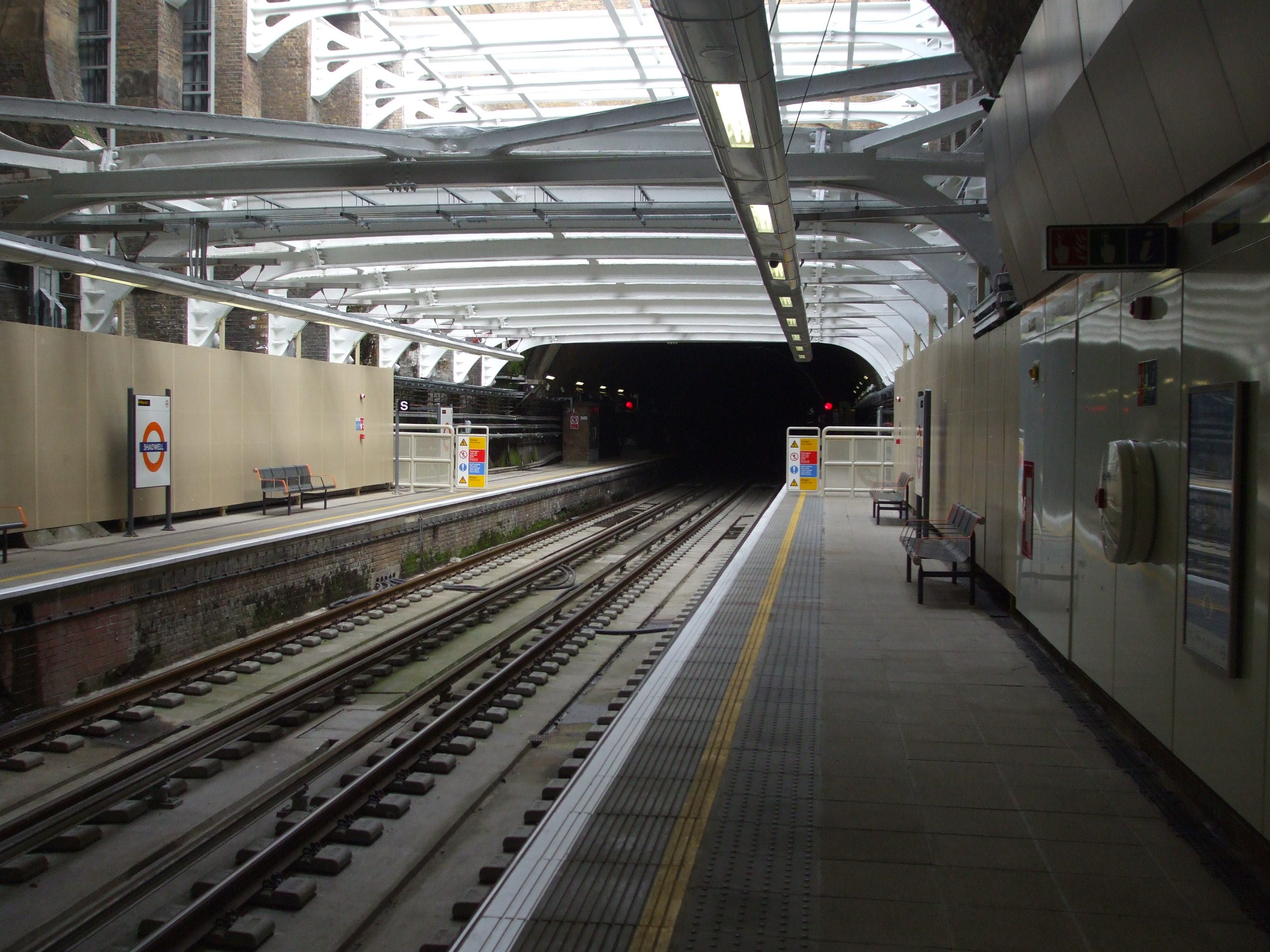 Shadwell station (East London Line) looking north, a day after opening on 27 April 2010